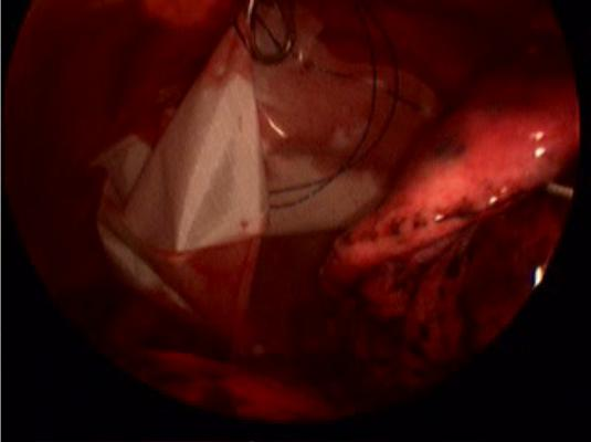 Image generated by Ddearmond from a thoracoscope during an operation with patient consent. Released under the GFDL.